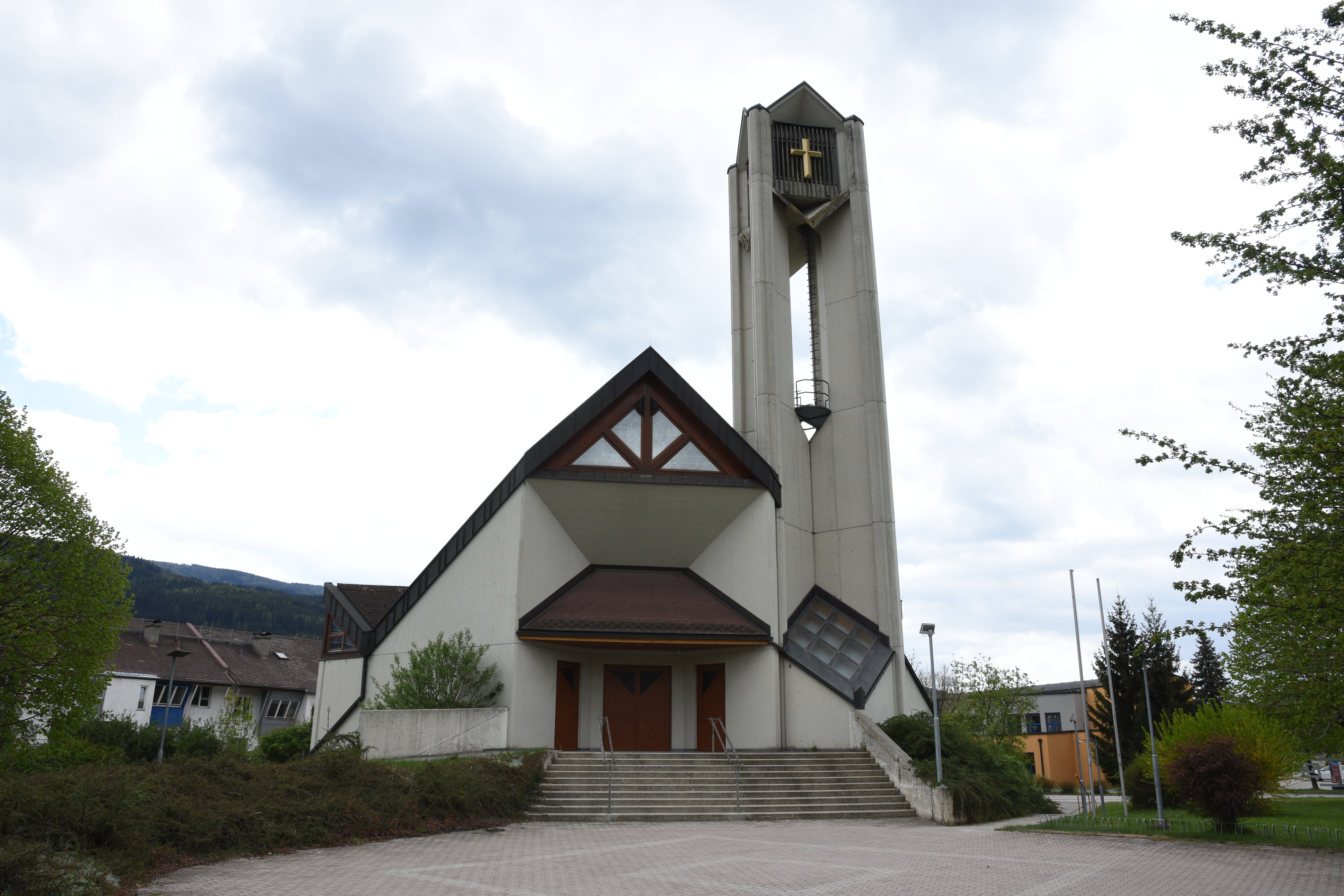 Church Filialkirche Sankt Barbara Mitterdorf im Mürztal